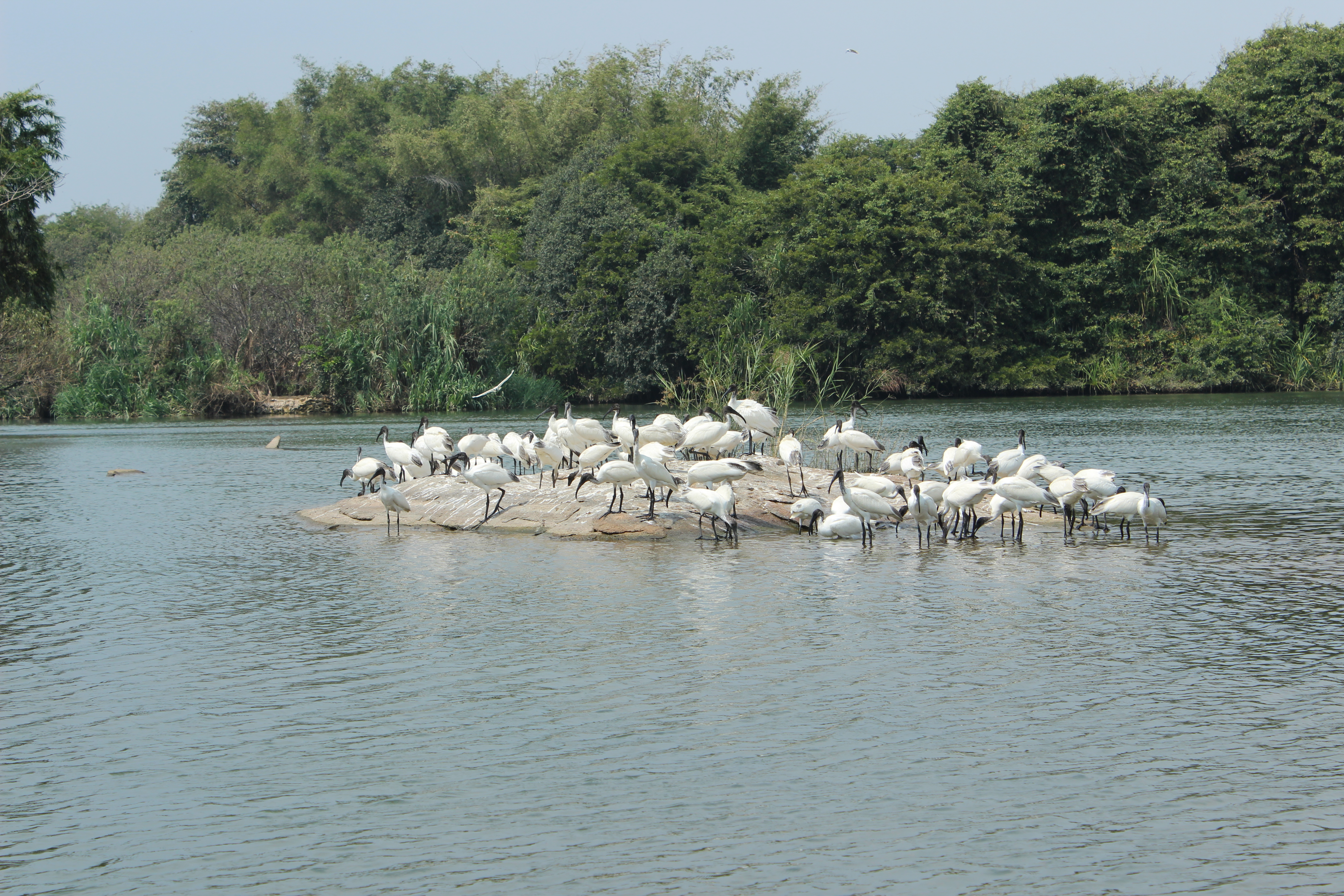 Birds at Ranganathittu bird sanctuary